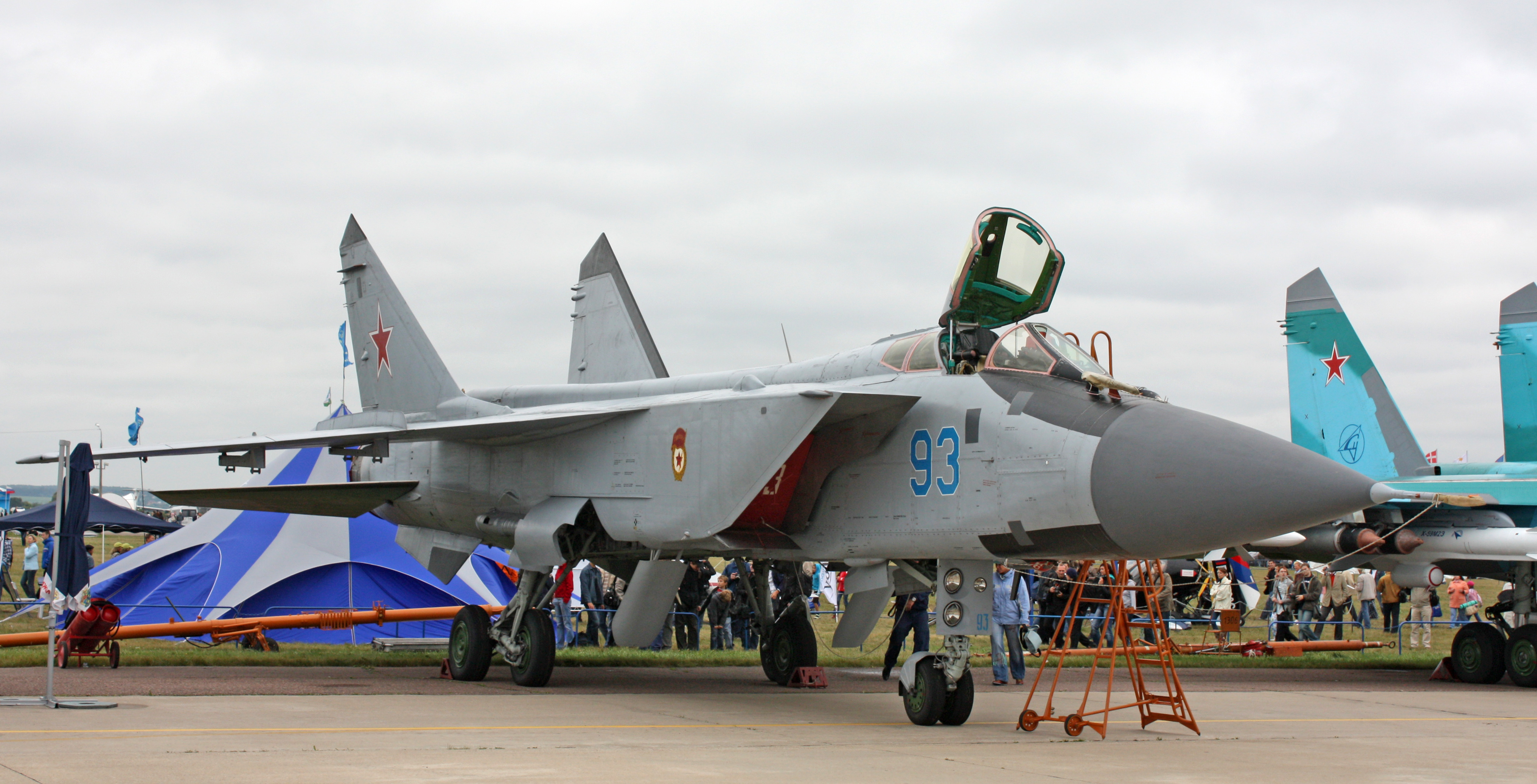 Mikoyan-i-Gurevich MiG-31BM (The international aerospace salon MAKS-2009)